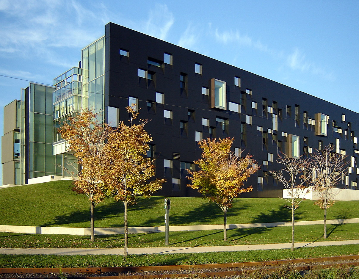 Perimeter Institute for Theoretical Physics in Waterloo, Ontario, Canada, facade facing Father David Bauer Drive.